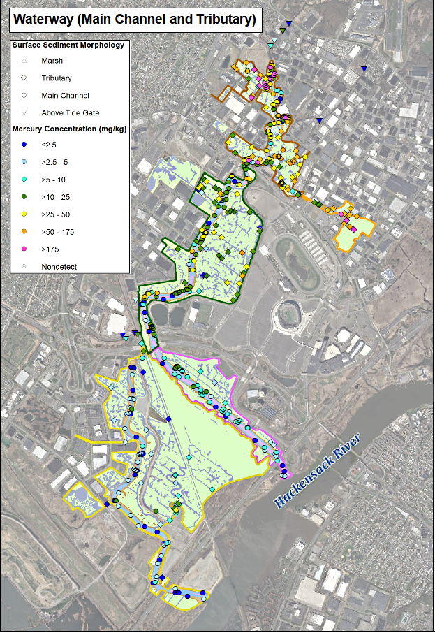 Map of mercury concentrations measured in the surface sediment of the main channel and tributaries of Berry's Creek, in the New Jersey Meadowlands. The samples were collected and analyzed between 2008 and 2015. The mercury contamination was caused by chemical companies which dumped waste into the creek from the early 20th century to 1974.